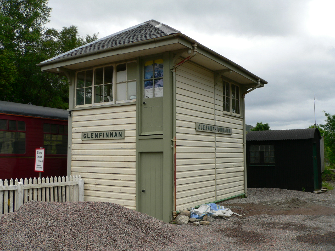 The signal box at Glenfinnan railway station (Gleann Fhionnainnan in Scottish Gaelic on the West Highland Line in Scotland.